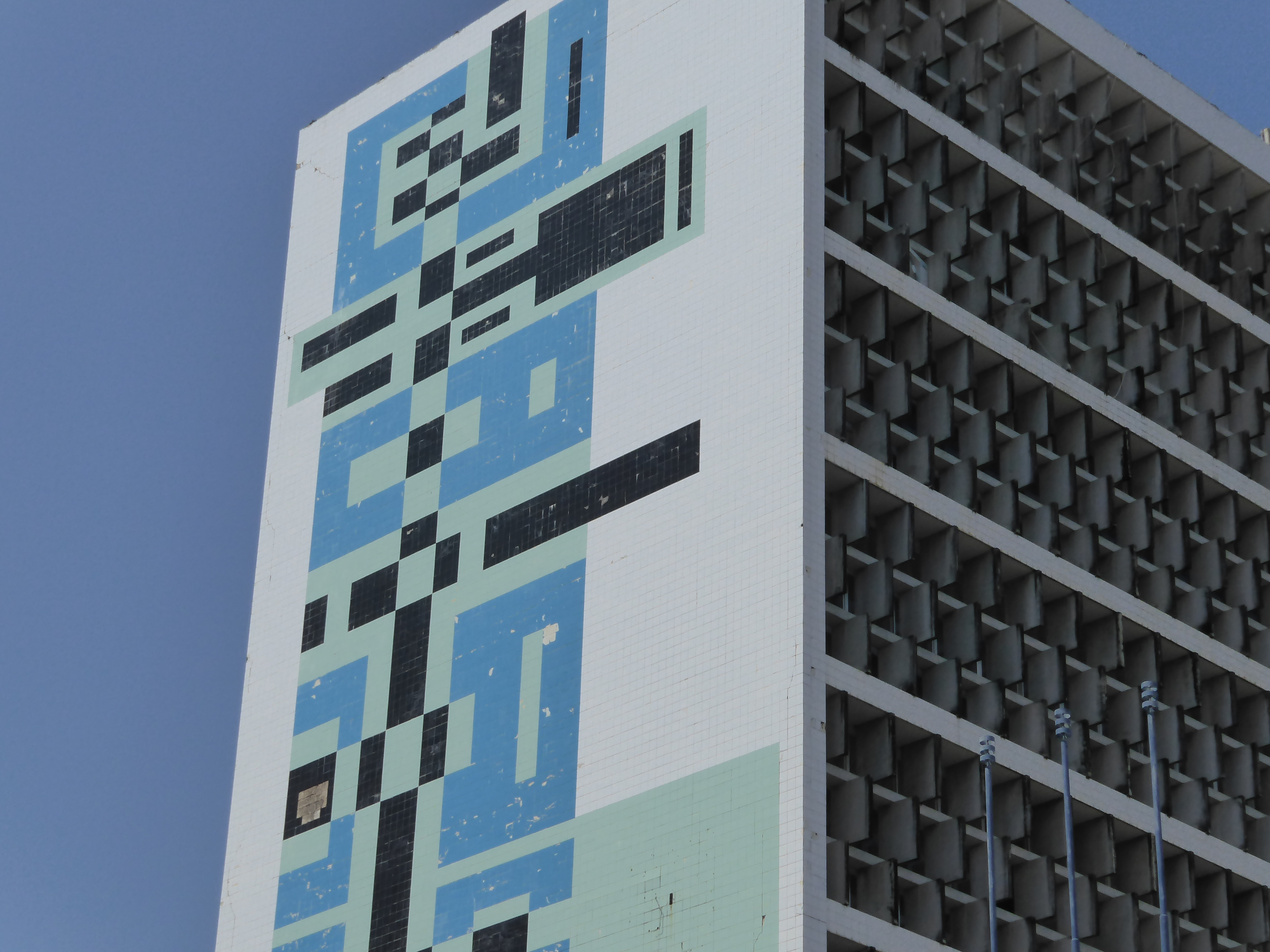 Banco de Moçambique building in Quelimane, Zambézia province, Mozambique